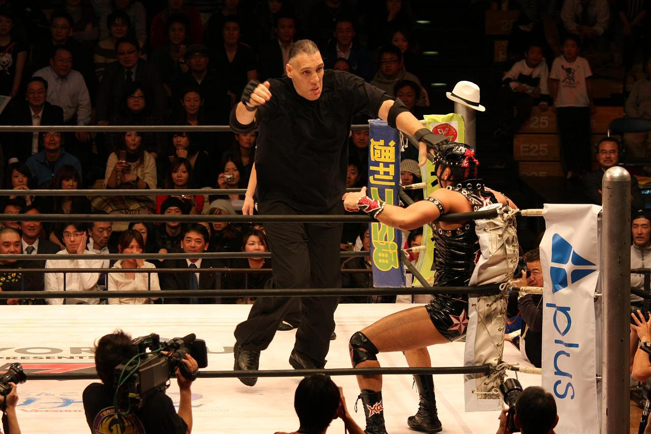 Giant Silva giving a corner clothesline to HG in HUSTLE Christmas House.